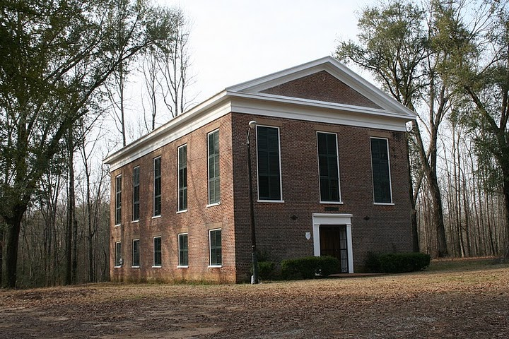 Valley Creek Presbyterian Church near Selma, Alabama, United States.